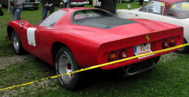 A Manta Montage, an American replica of the McLaren M6GT using VW Beetle underpinnings